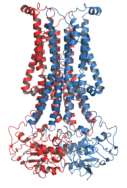 Structure of the bacterial flippase protein pglK, rendered in PyMol from PDB ID 5C73. The protein is a transmembrane protein with the extracellular surface oriented toward the top of the image and the ATP binding domains on the cytosolic side at the bottom. The two chains of the dimer are shown in red and blue. Structure published in